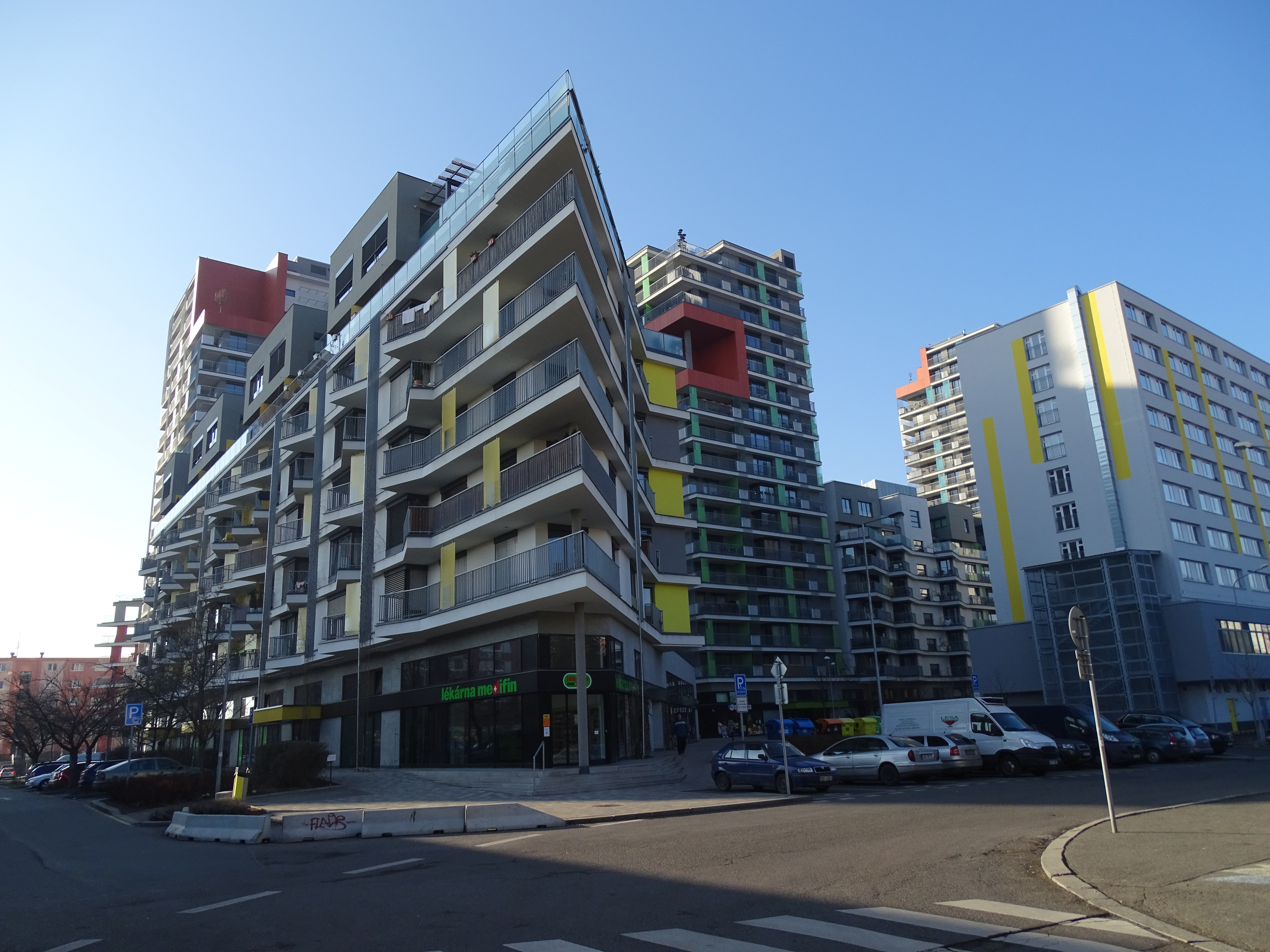 Prague-Malešice, Czechia, V úžlabině, Plaňanská, ByTy Malešice.